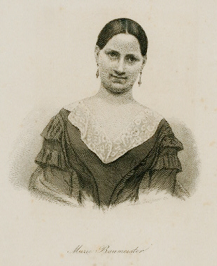 German actress Marie Baumeister (1819-1887)